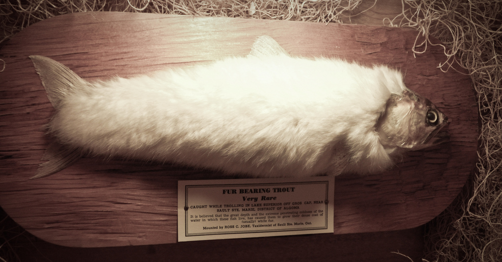 I'll say it's very rare! The explanation behind this very rare fish is described on the main plaque below it: "The great fur-covered trout myth: A furry fish like this was once displayed in the National Museum of Scotland as an authentic species of trout! Believing that the immense depth and icy temperature of Canada's Lake Superior made the fish grow fur to keep warm, the museum stubbornly refused to believe the fish was a hoax. The myth of the fur-covered fish persisted well into the 1930's until Robert Ripley discovered a backwoods Canadian taxidermist making his living by attaching rabbit fur to brook trout."